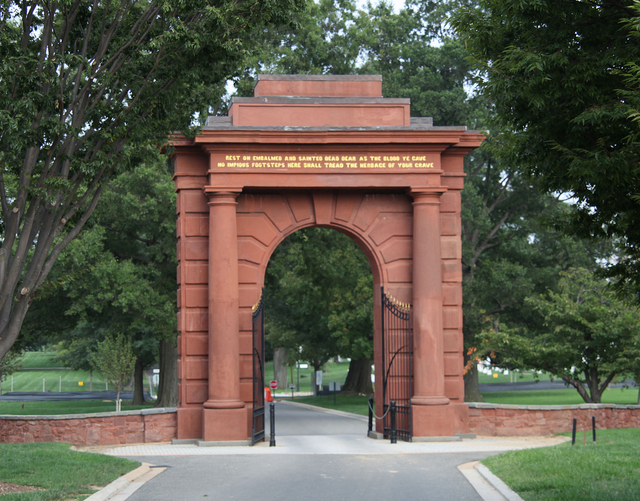 Looking east at the McClellan Gate at Arlington National Cemetery in Arlington, Virginia, in the United States. U.S. Army Quartermaster General Montgomery C. Meigs had authority over Arlington National Cemetery after the American Civil War. At that time, the eastern boundary of the cemetery lay where Eisenhower Drive is located today. In 1871, Meigs ordered the a main ceremonial gate to Arlington be constructed just east of what is now the intersection of McClellan Avenue and Eisenhower Drive. Built of red sandstone and red brick, Meigs named it the McClellan gate after Major General George B. McClellan, who organized the Army of the Potomac and served from November 1861 to March 1862 as the general-in-chief of the Union Army. Meigs ordered the name "MCCLELLAN" inscribed into the gate's east=facing rectangular pediment in gilt letters. In the left main column of the gate's west face, Meigs had his own name inscribed as a tribute to himself. In 1900, the federal government transferred 400 acres of Arlington National Cemetery which lay between McClellan Gate and the Potomac River to the U.S. Department of Agriculture, which used it as an experimental farm. In 1932, Memorial Drive and the Hemicycle (now the Women in Military Service to America Memorial) were built as a new ceremonial entrance to the cemetery. The 400 acres were returned to Arlington National Cemetery just before World War II, which required the abandonment of the McClellan Gate as Arlington's main gate.